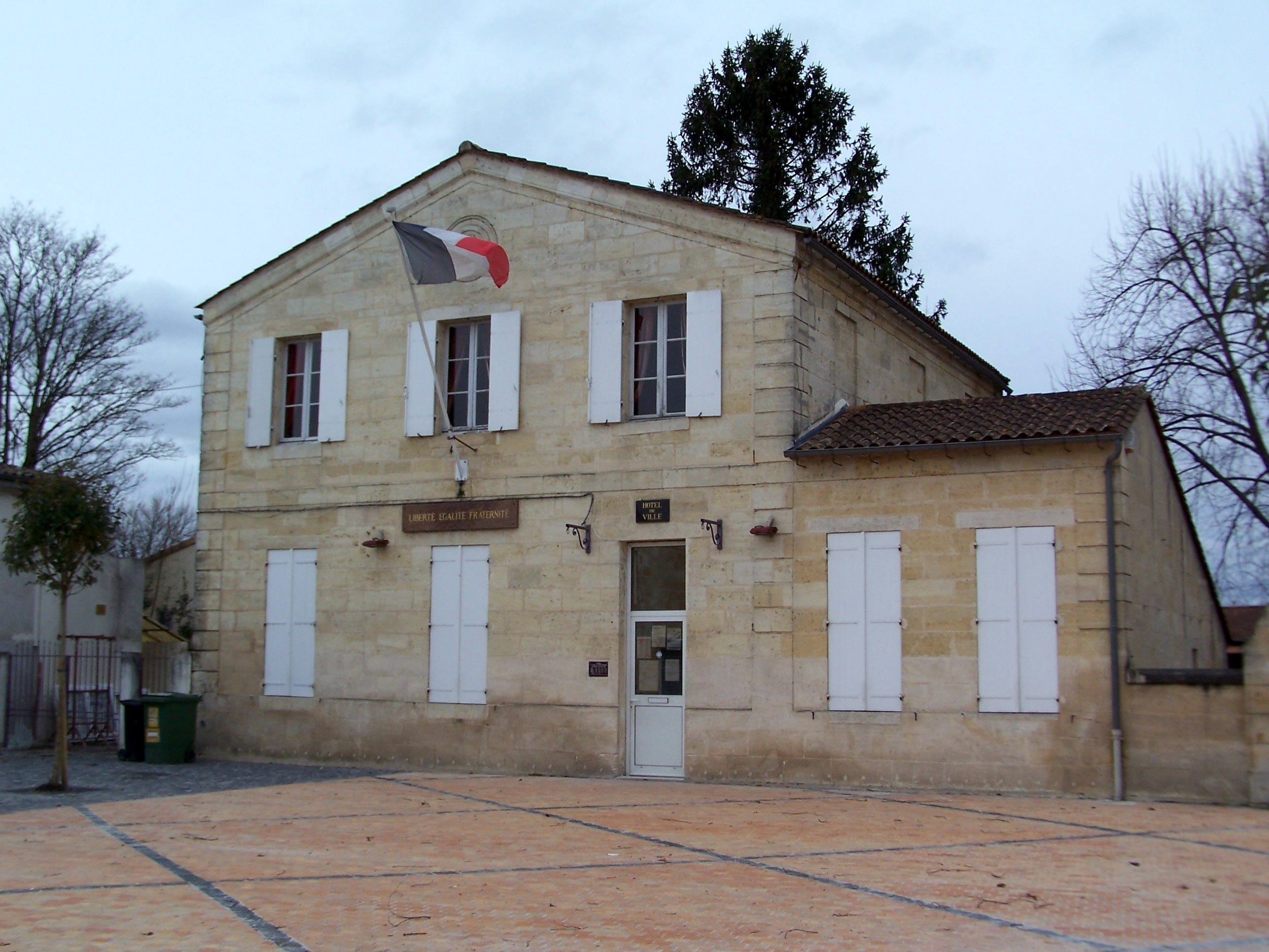 Town hall of Saint-Louis-de-Montferrand (Gironde, France)